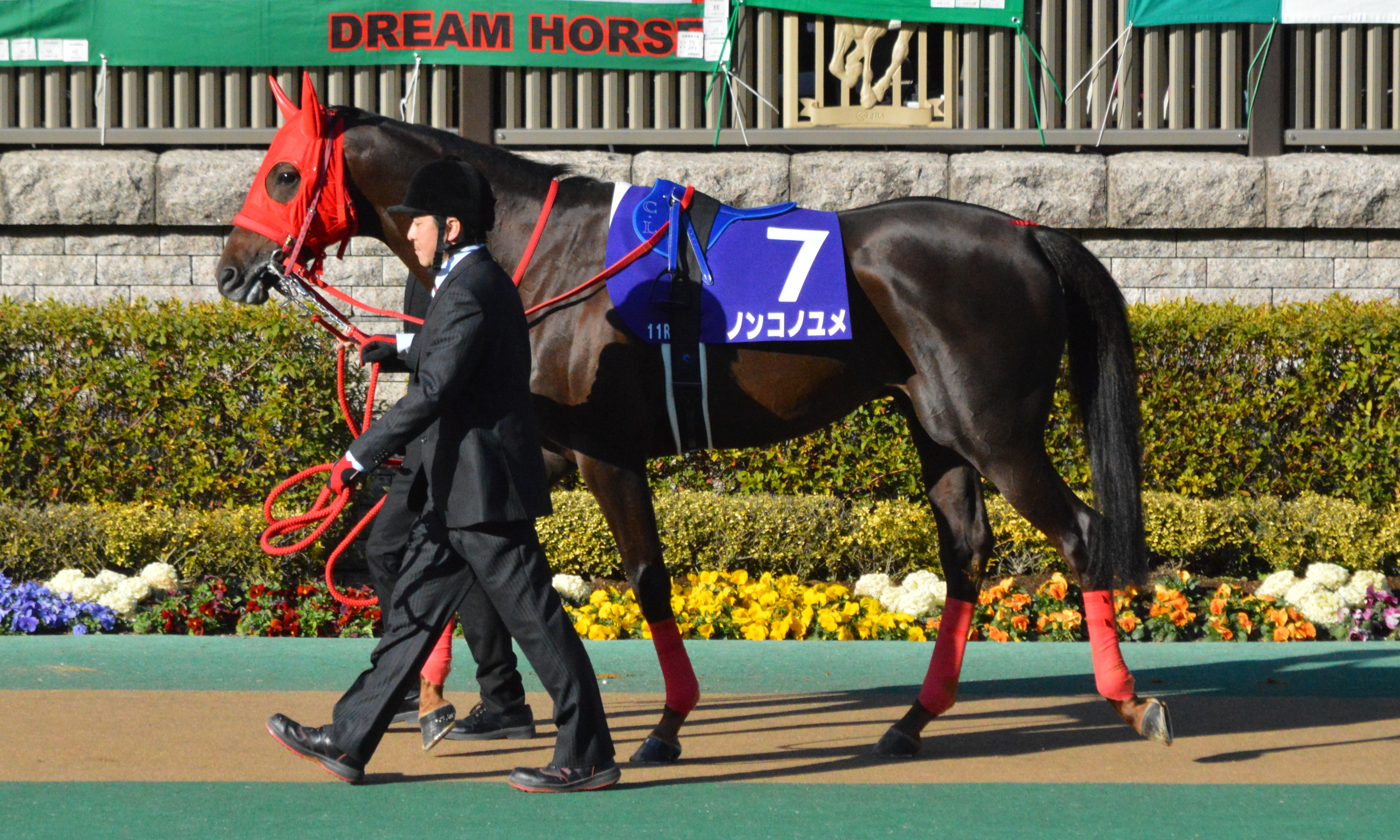 Japanese race horse Nonkono Yume at Tokyo racecourse. Tokyo (JPN) 21 Feb 2016February Stakes (Grade 1) (4yo+) (Dirt) 1m Muddy RankHorse NameOddsAgeWgtTrainerJockey1stMoanin (USA)41/10C49-0Sei IshizakaMirco Demuro2ndNonkono Yume (JPN)7/5FC49-0Yukihiro KatoChristophe-Patrice Lemaire3rdAsukano Roman (JPN)171/10H59-0Yoshihiko KawamuraKeisuke Dazai4th - 16th/omission